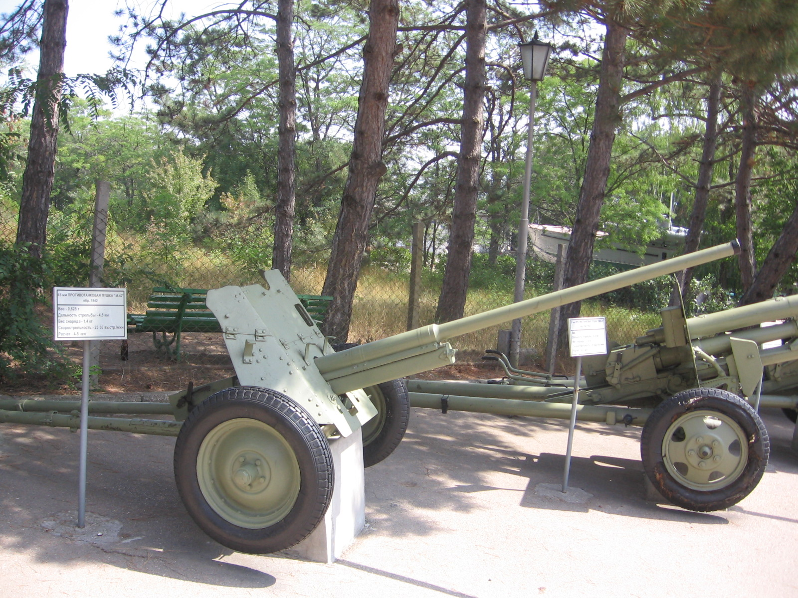 Soviet 45 mm anti-tank gun M1942 (M-42), manufactured in 1943, is displayed at the Museum of Heroic Defense and Liberation of Sevastopol on Sapun Mountain in Sevastopol.